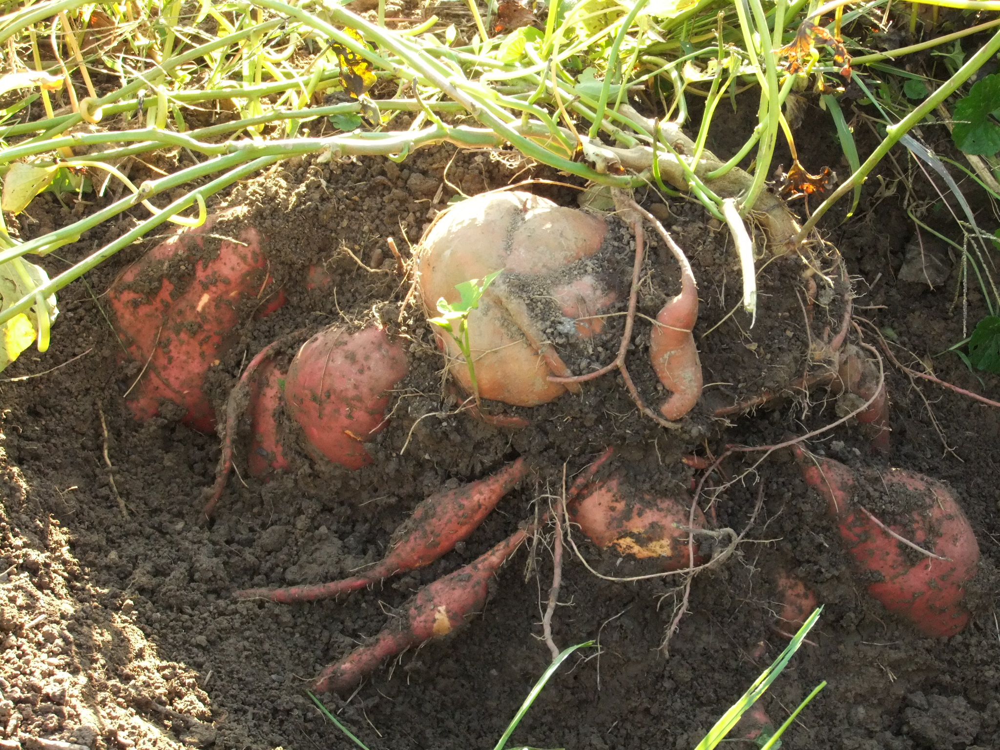 The partially exposed underground part of a sweet potato plant, during harvesting. Normally (i.e., before digging started) only the top half of the topmost (lighter-colored) tuber was seen above the soil surface.